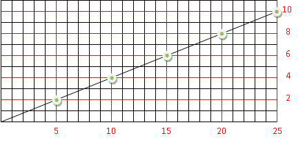 Geometrical interpretation of greatest comon divisor.